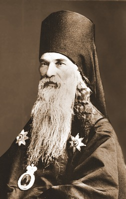 Guriy, bishop of Simpheropol and Crimea